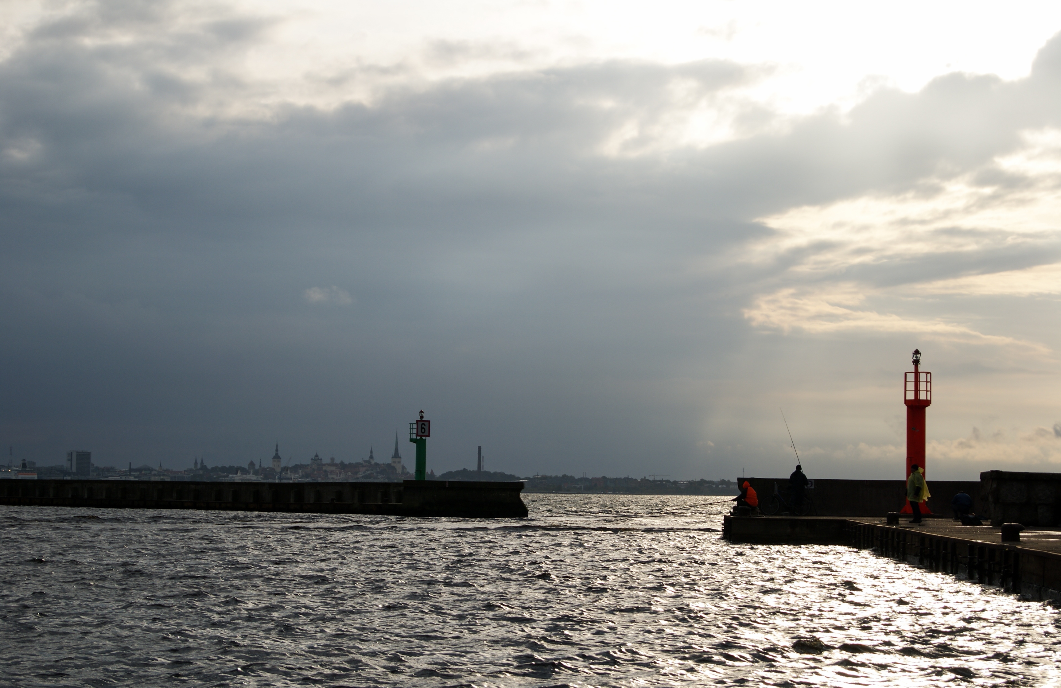 Pirita harbour